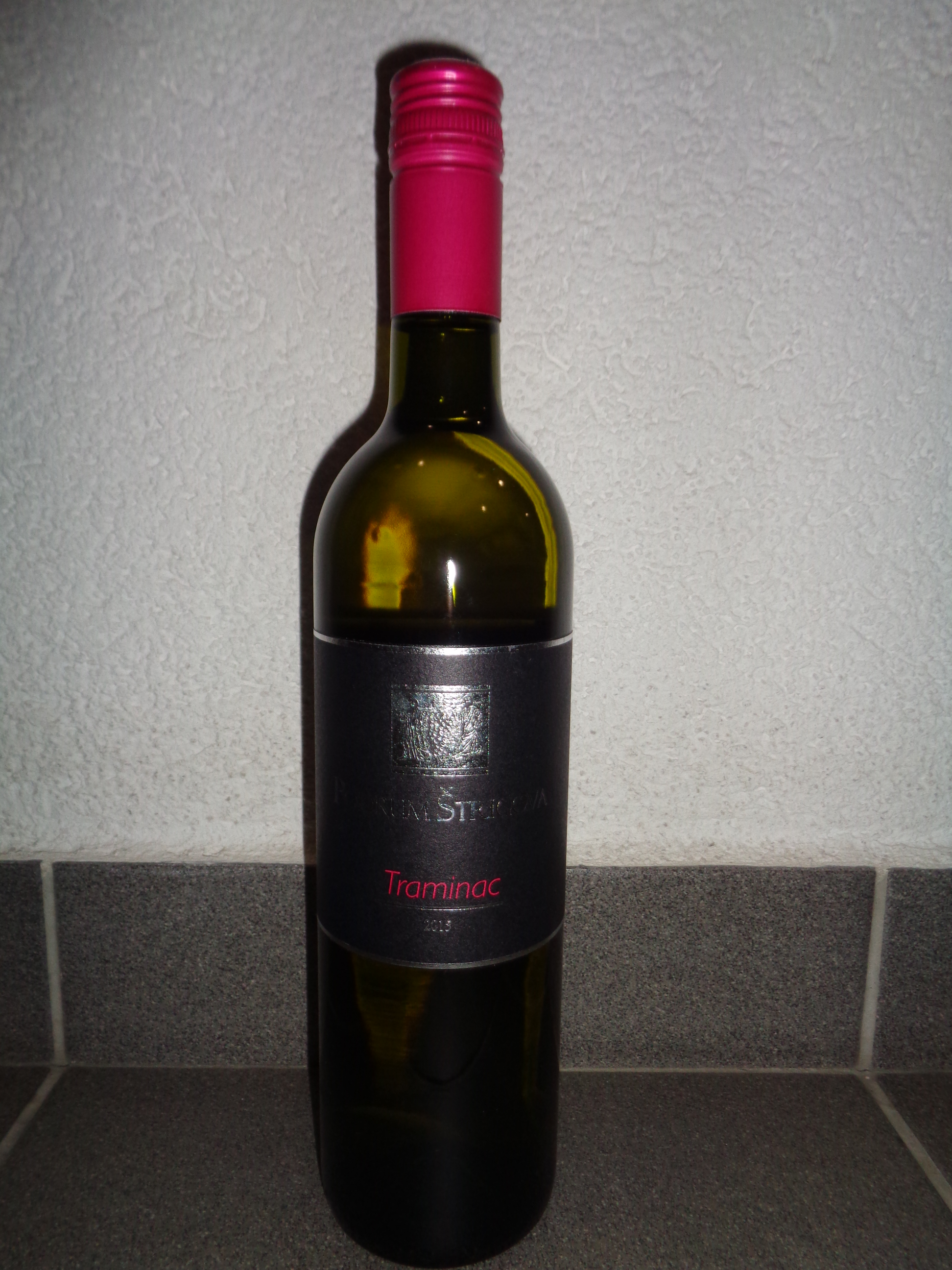 A bottle of Traminer wine from Medjimurie wine growing subregion, northern Croatia